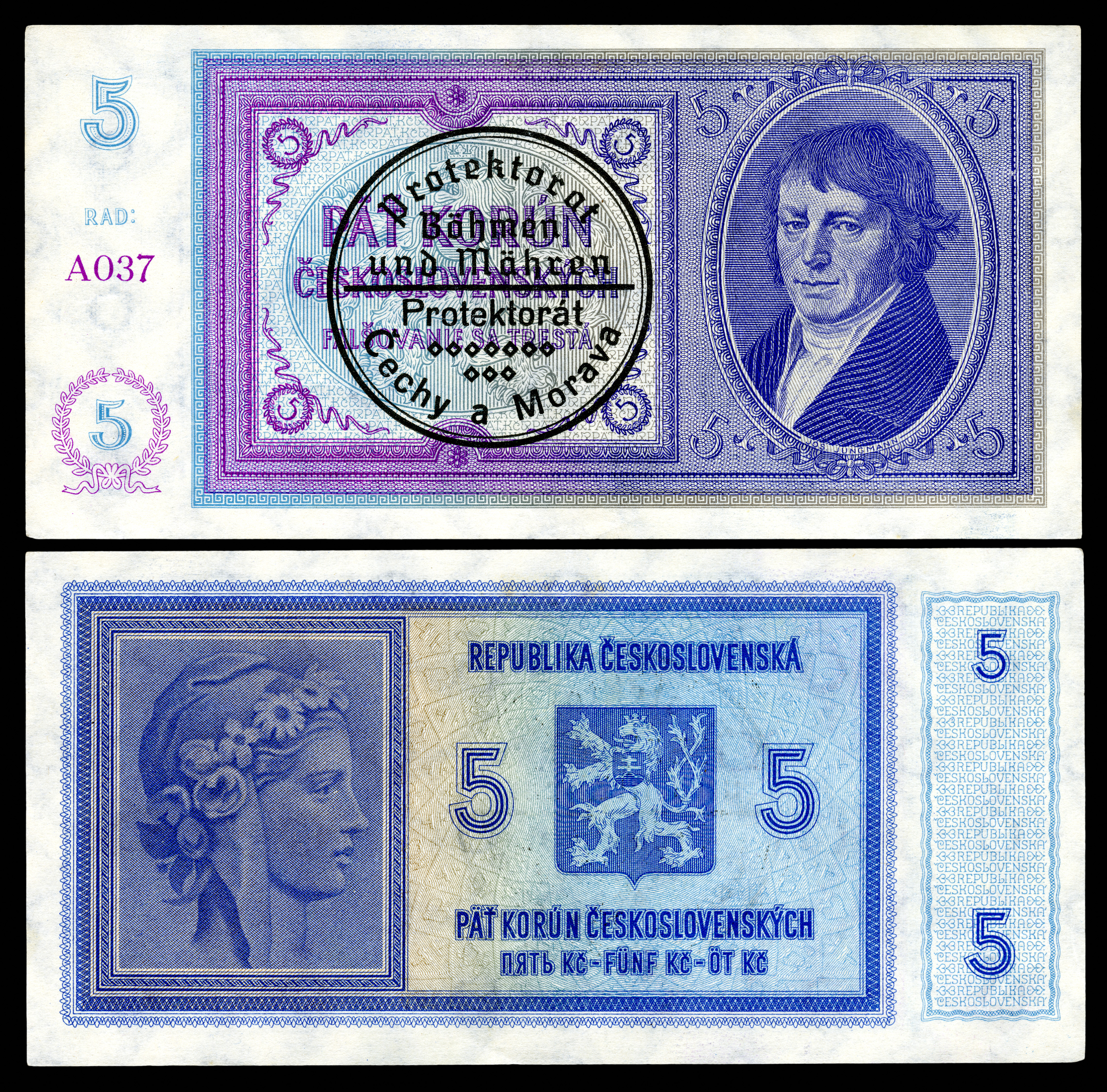 Protectorate of Bohemia and Moravia, 5 korun , ND (1939). The base note, a Republic of Czechoslovakia 5 korun note (dated 1938), was printed but never issued. The series was intended for the Czech army. During the German occupation of Czechoslovakia, the unissued 1938 notes were circulated in 1939, with an oval stamp on the face identifying the currency as issued by the Protectorate of Bohemia and Moravia.